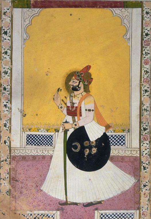 Maharaja Man Singh of Jodhpur 1820-40 Jodhpur San Francisco Museum of Art